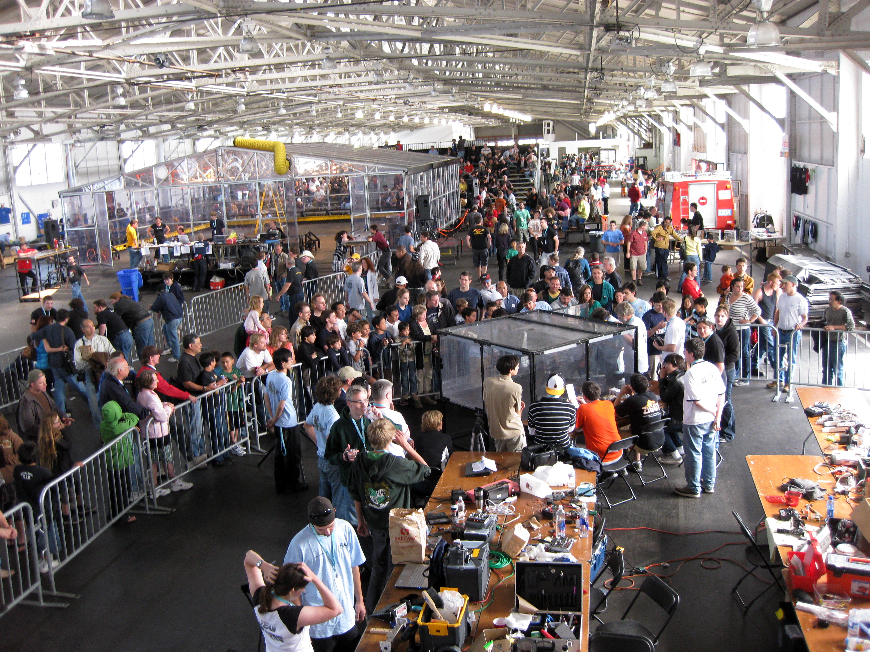 RoboGames 2008, Fort Mason, San Francisco, California